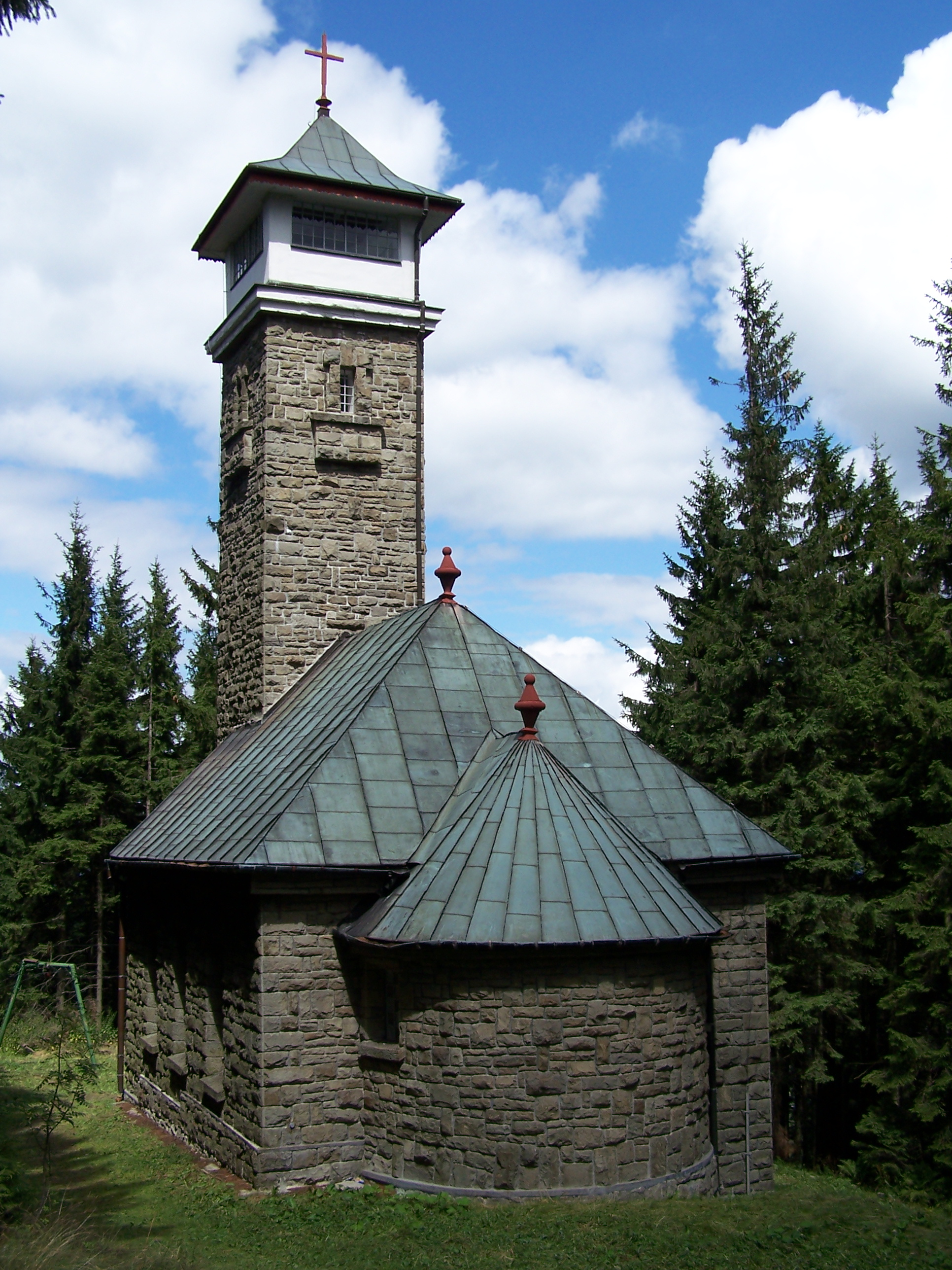 Saint Anne Chapel at Kozubová (Kozubowa) mountain, Moravian-Silesian Beskids mountain range, Czech Republic